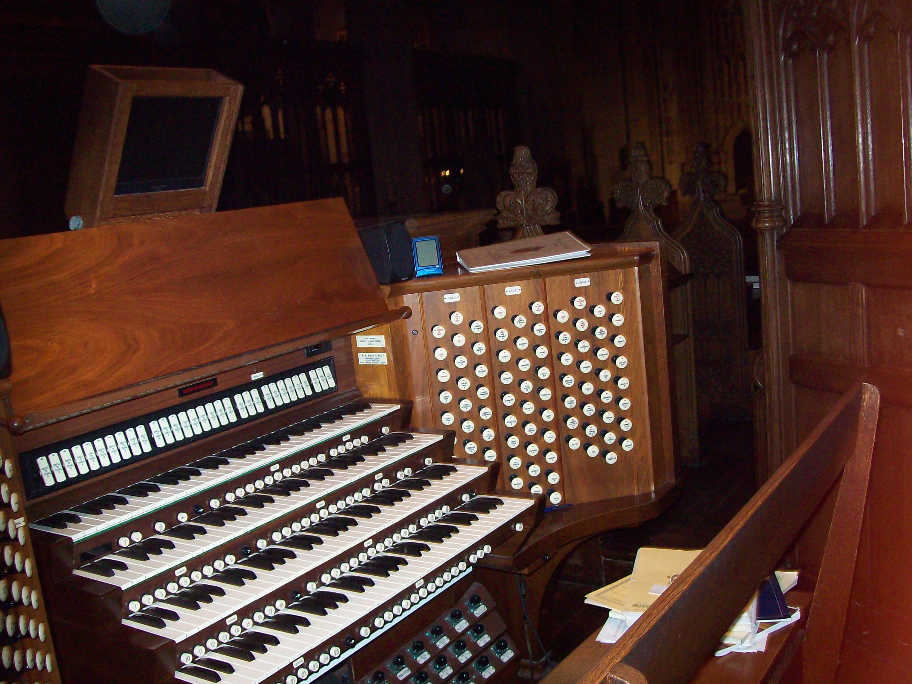 The console of the Great Organ at the National Cathedral in Washington, D. C. It is located in the Great Choir and has four manuals and over 10,000 pipes.